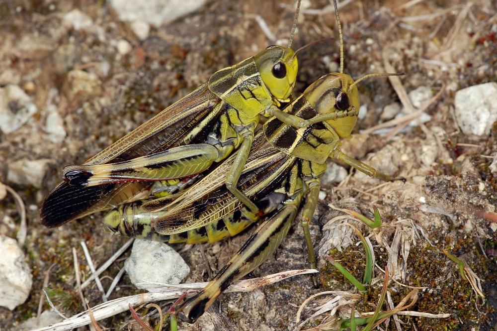 Arcyptera fusca, Fiescheralp, Switzerland